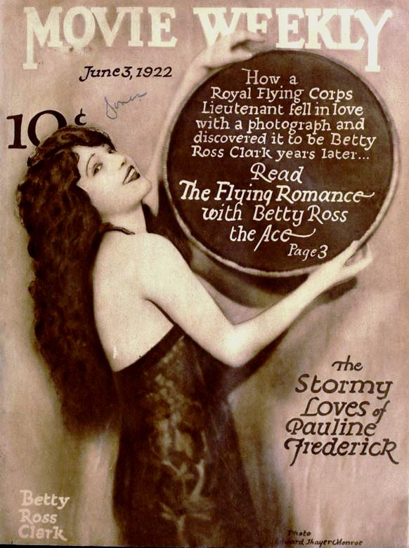 Actress Betty Ross Clarke (misspelled as Clark), on the cover of the June 3, 1922 Movie Weekly.